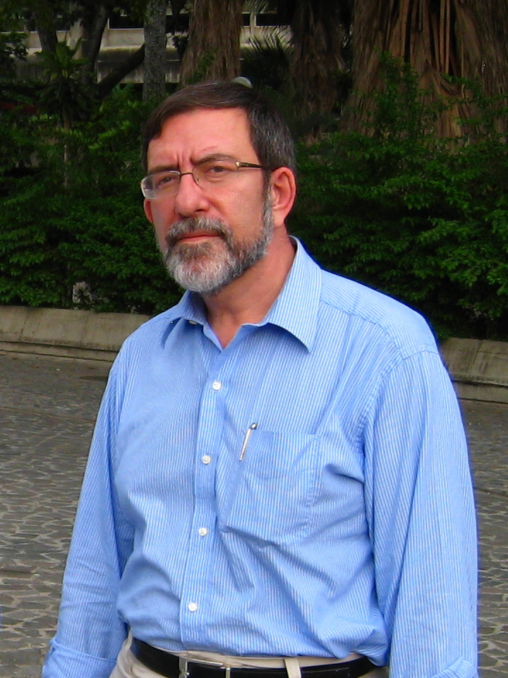 Former Bulgarian Prime Minister Philip Dimitrov (1991-92)